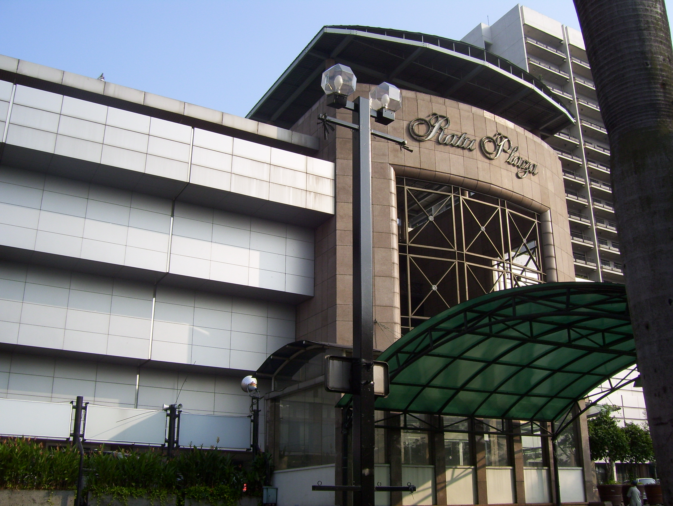 Ratu Plaza Building Jakarta